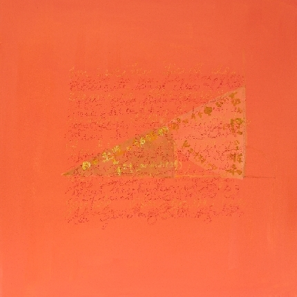 The painting "Golden ratio" by Martina Schettina, shown 2010 during an exhibition at Museumsquartier Vienna. It shows the construction of the Golden ratio and there are severals formulas related to the golden ratio.